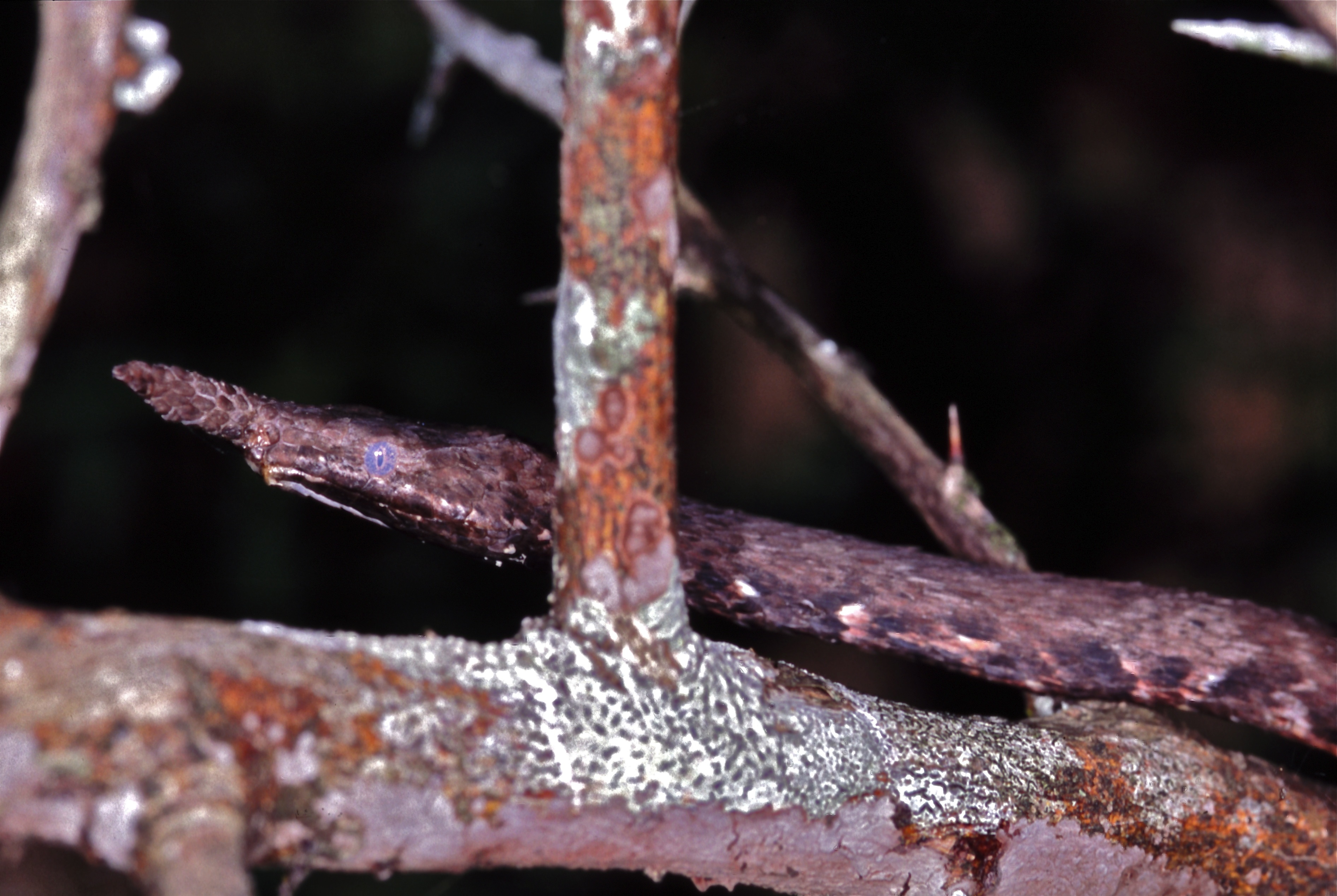 Réserve Peyrieras, Moramanga, MADAGASCAR Scanned Slide from 2004